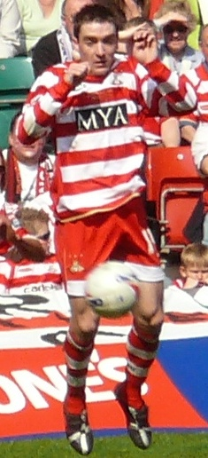 Paul Heffernan, cropped from Bristol Rovers vs Doncaster Rovers